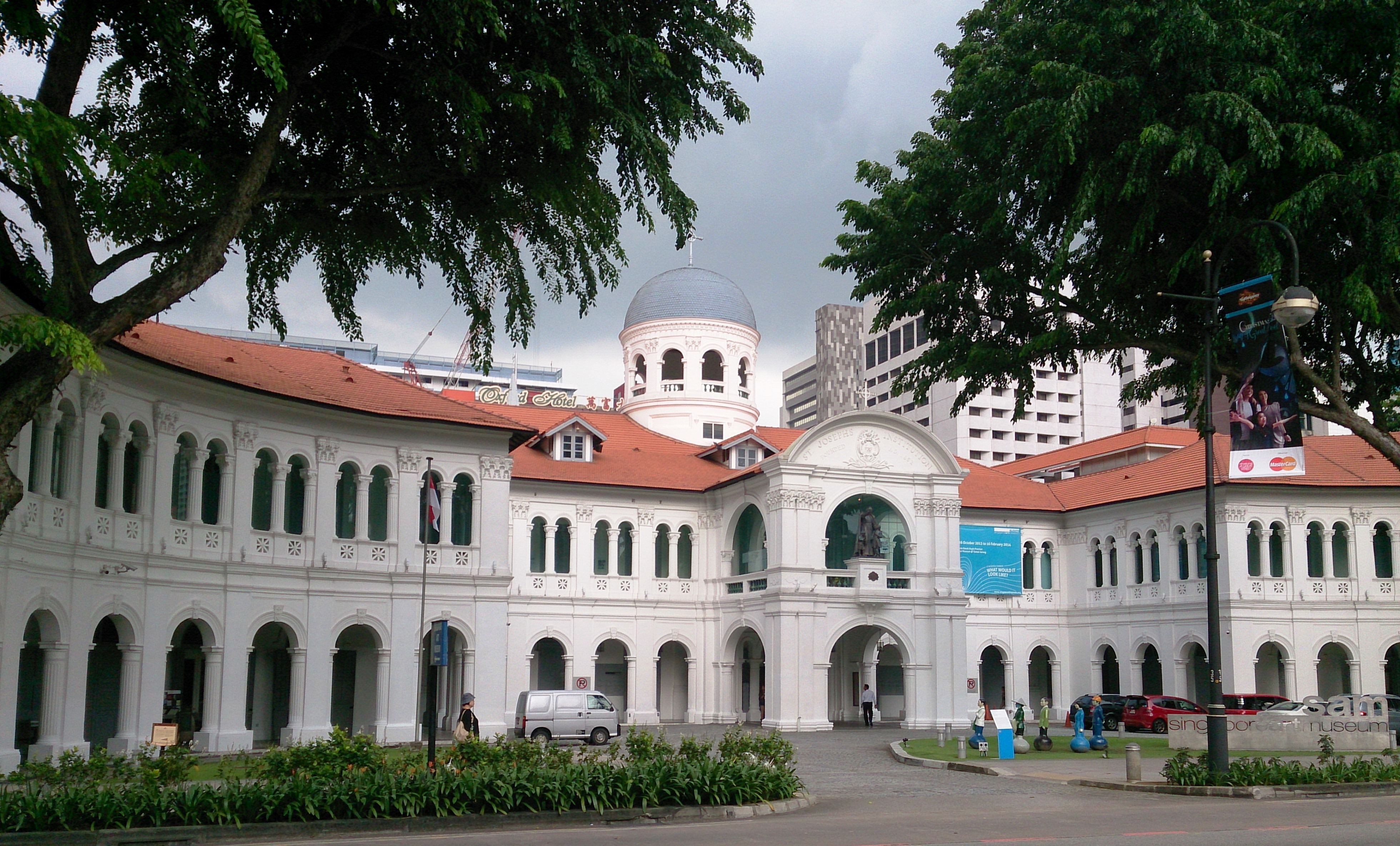 The Singapore Art Museum (SAM) at 71 Bras Basah Road, Singapore. The building was formerly occupied by St. Joseph's Institution.